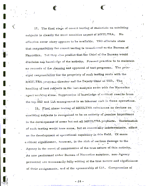 This a page from the declassified documents of the CIA-Project MKULTRA. Read Text